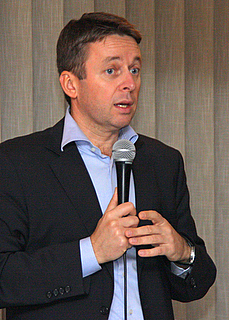 Ivan Mikloš